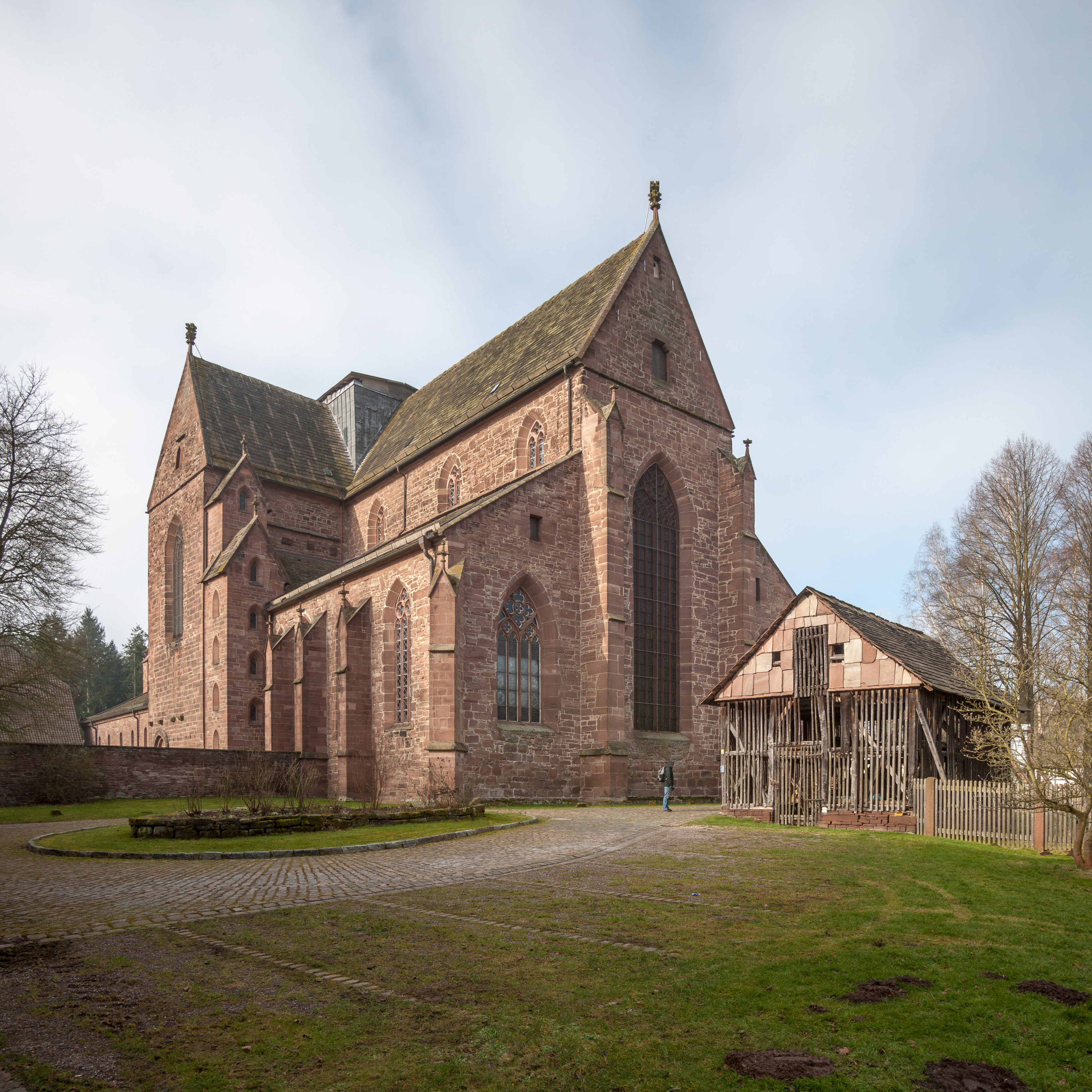 Amelungsborn Abbey in 2015 without steeple above the crossing. A modern steeple was erected in 2016.